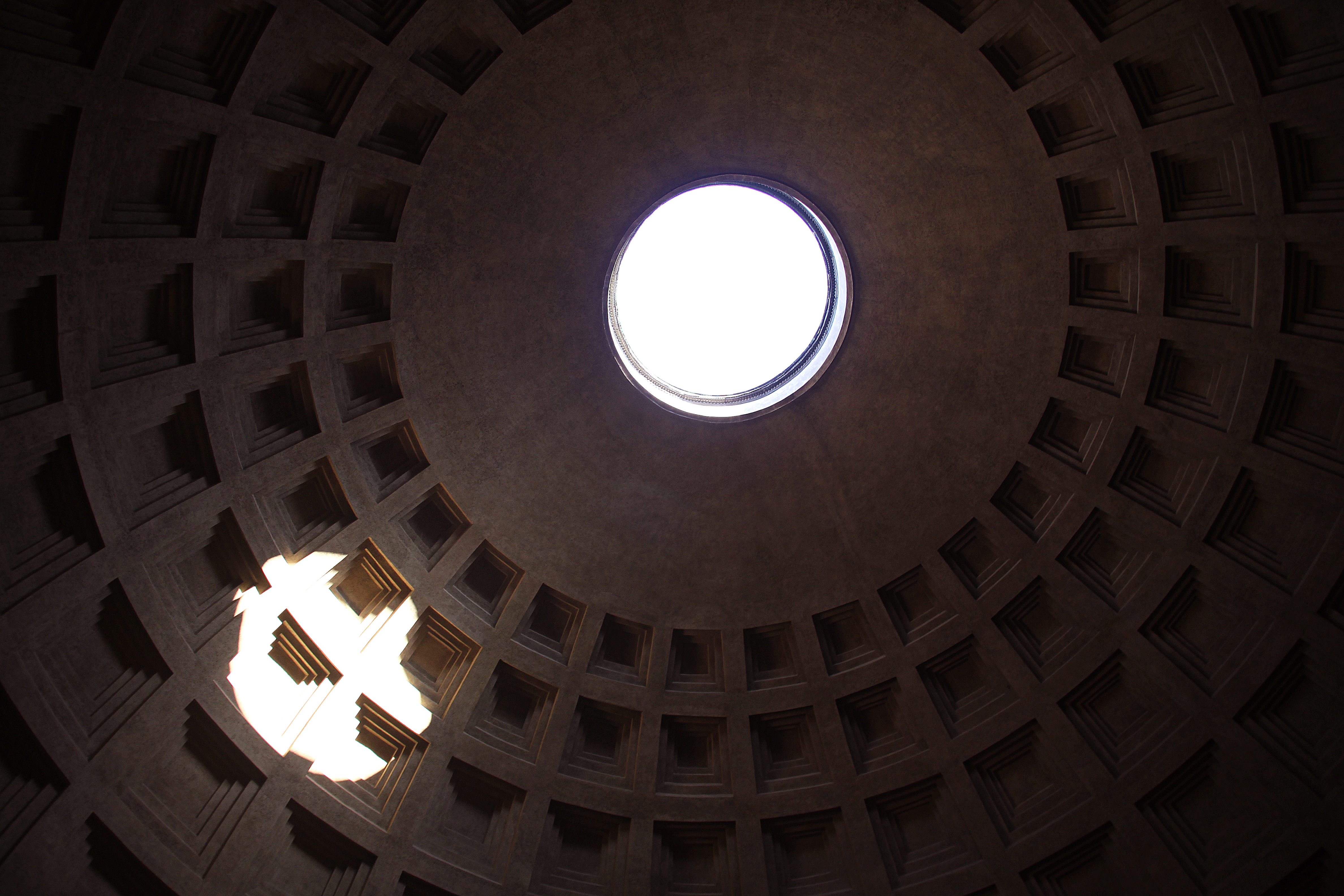 Oculus in ceiling of the Pantheon in Rome (Italy) with sunbeam falling through.